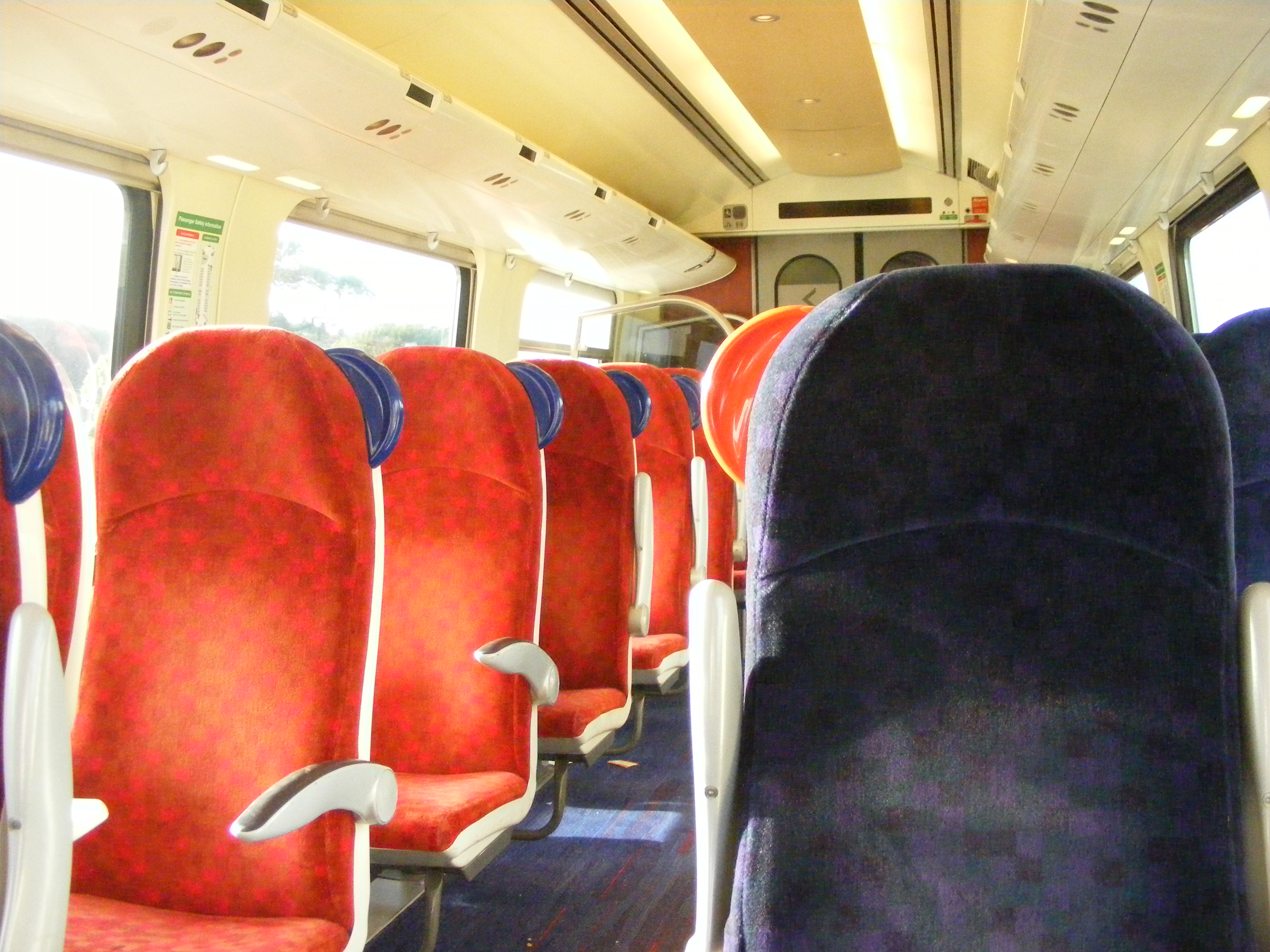 Interior of a British Rail Class 220 "Voyager" train, run by Arriva Cross Country.